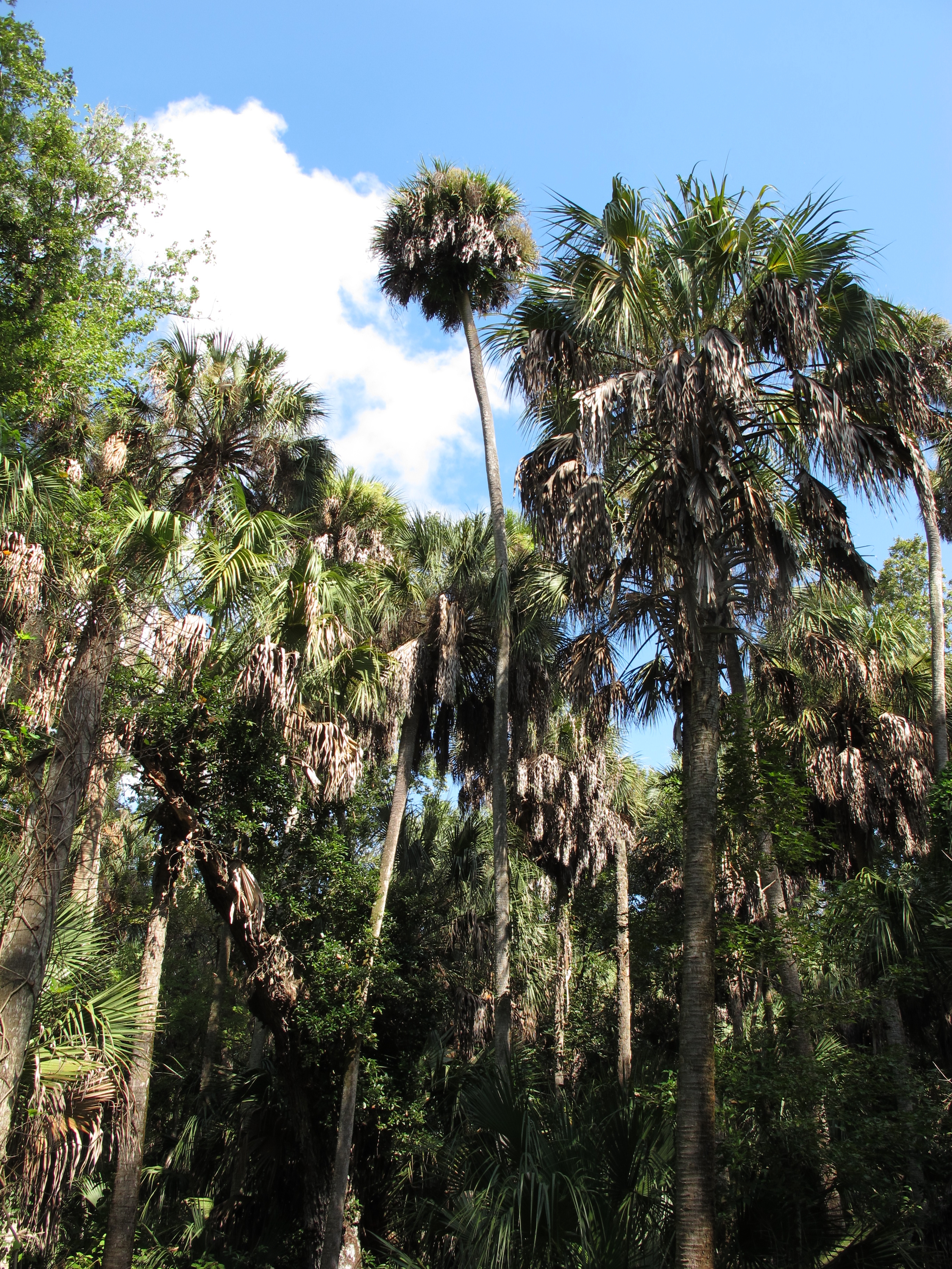 Sabal palmetto palms at Highlands Hammock State Park, Highlands County, Florida, USA.